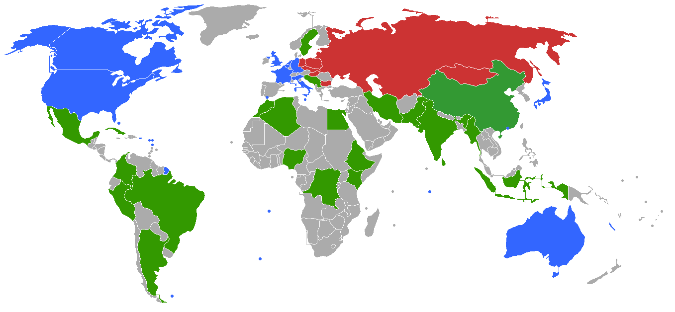 World Map of Member States of Conference on Disarmament (CD) in Geneva, Switzerland 1981